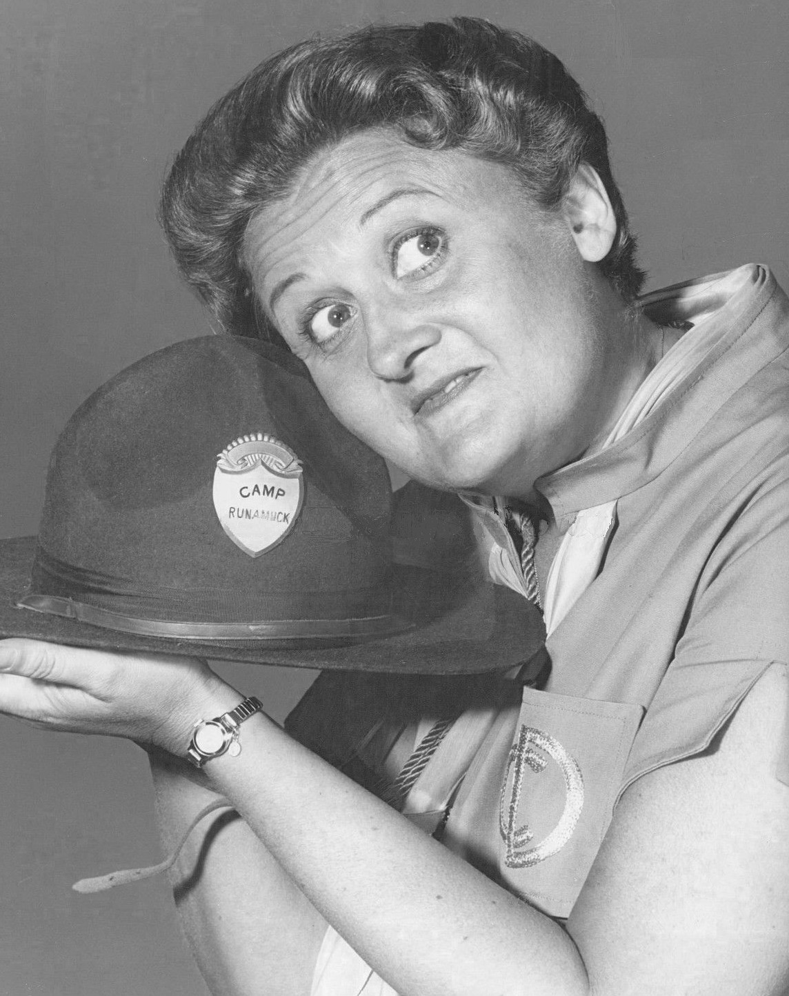 Photo of Alice Nunn from the television comedy Camp Runamuck.